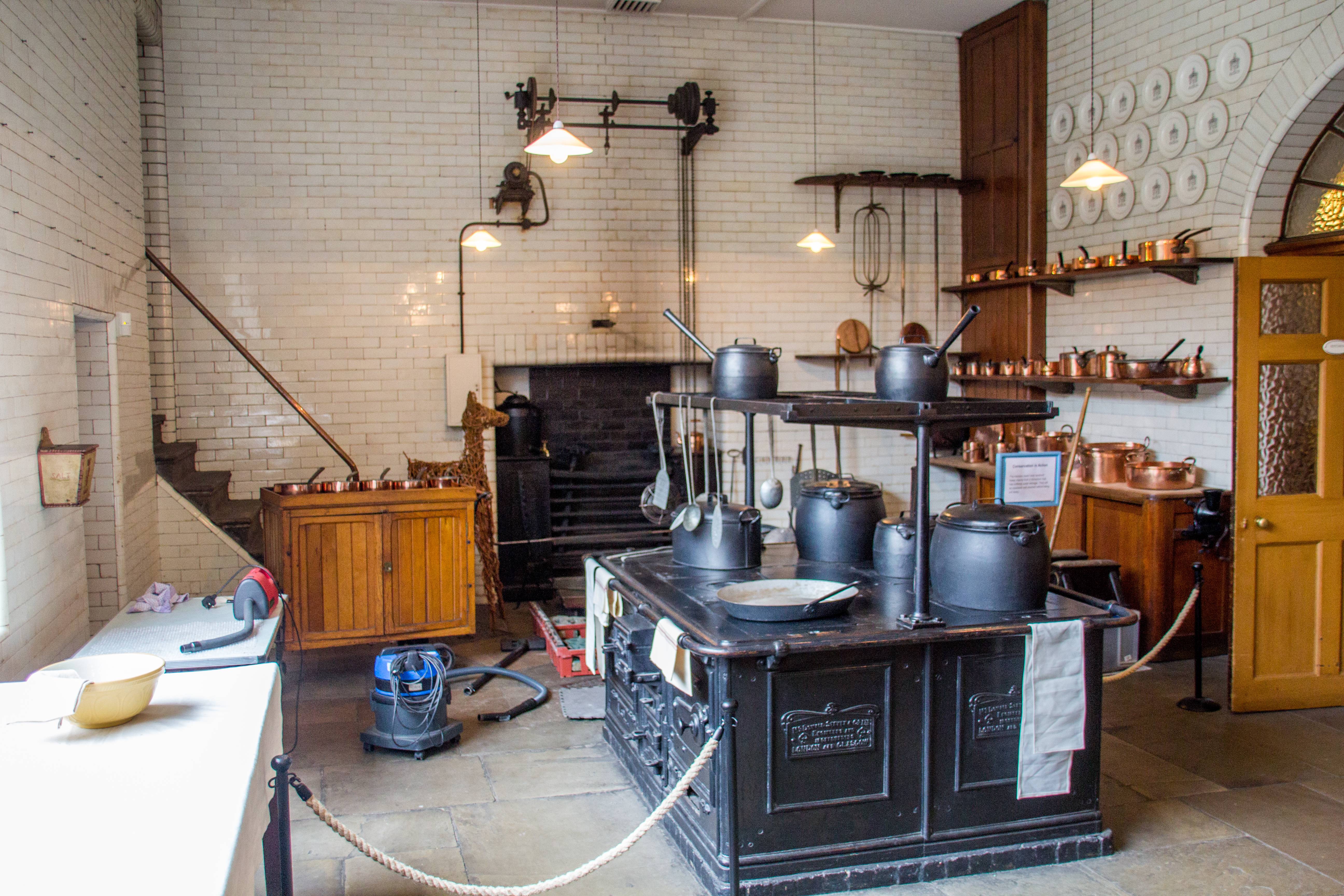 Inside Tatton Hall, Tatton Park, United Kingdom